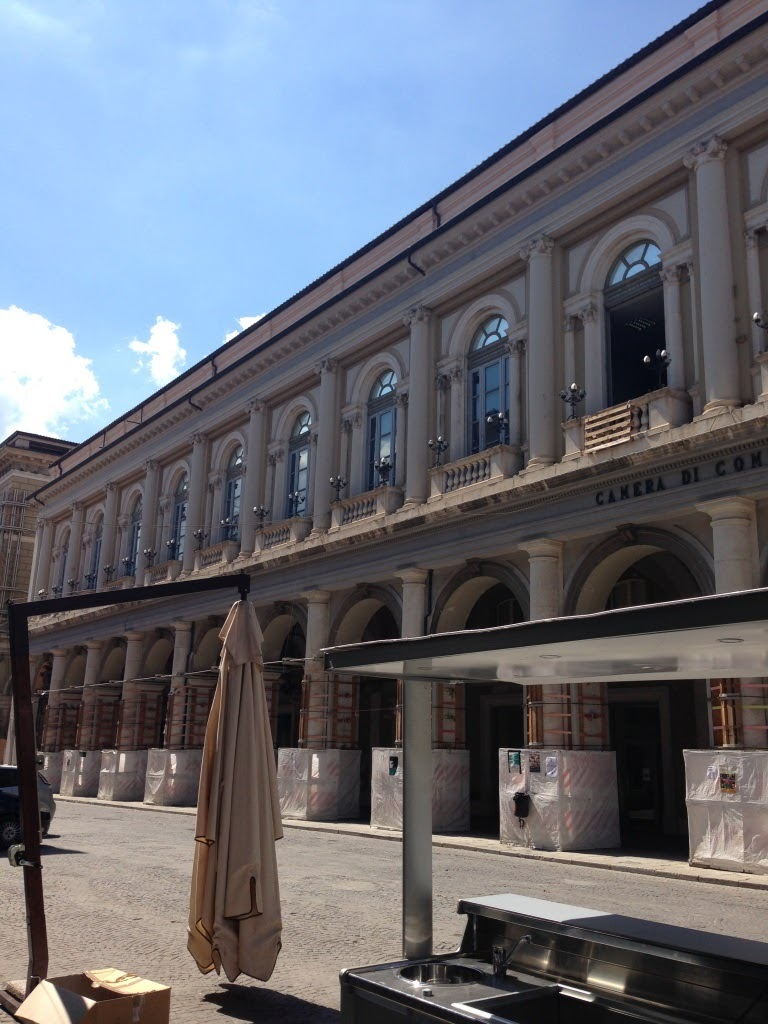 L'aquila